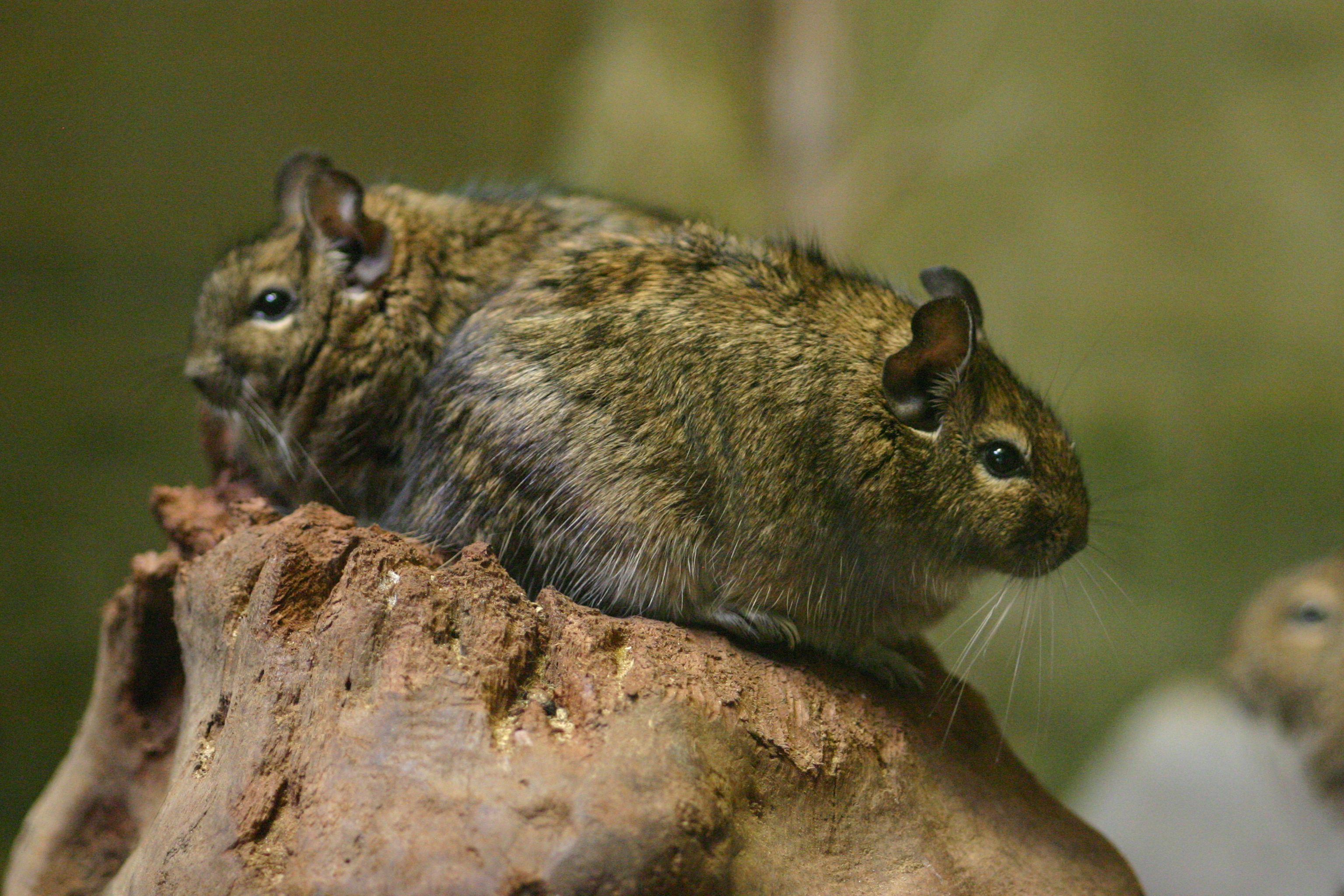 Degu (Octodon degus), DC Nat Zoo